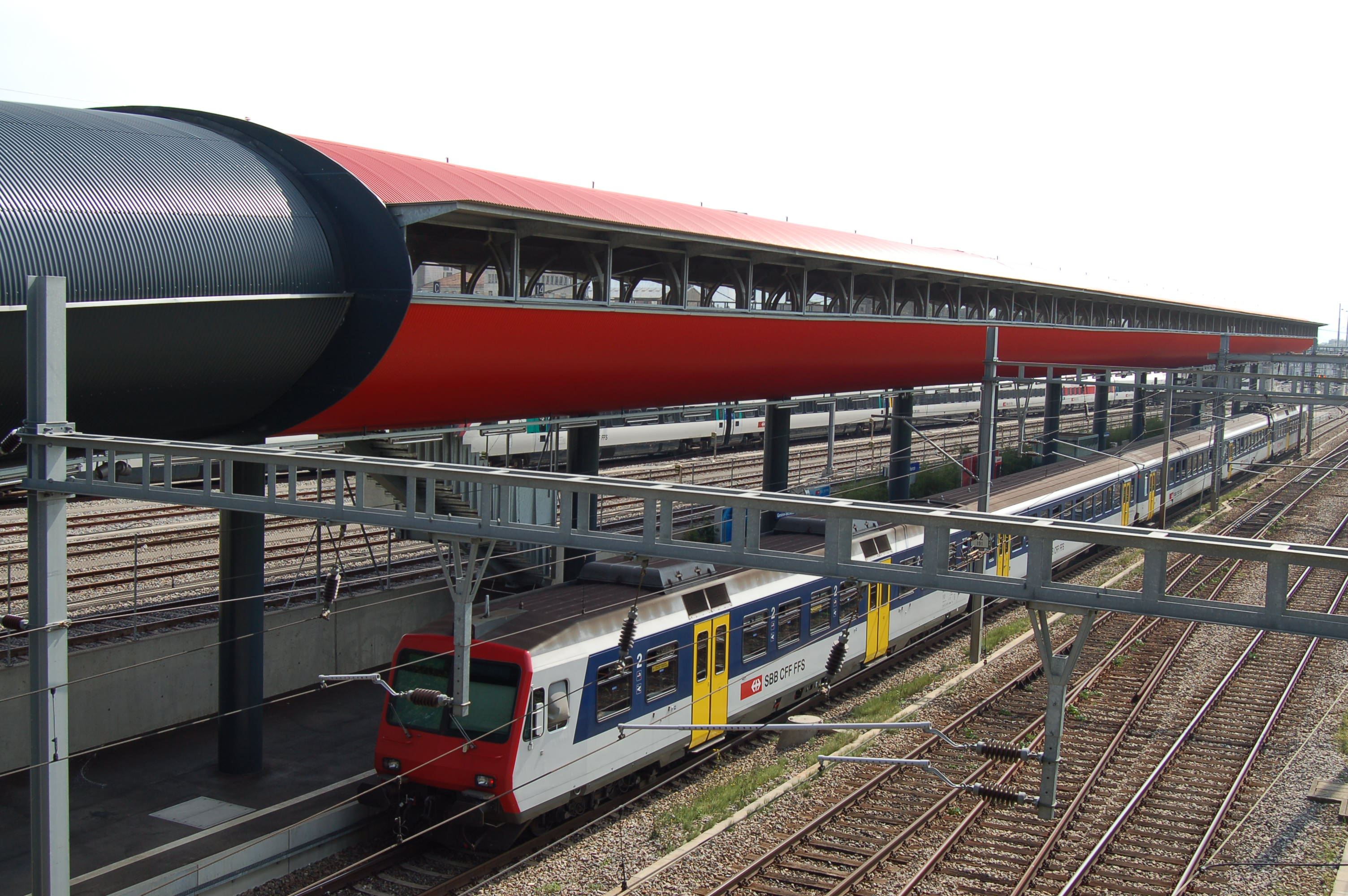 Geneva, train station Genève-Sécheron